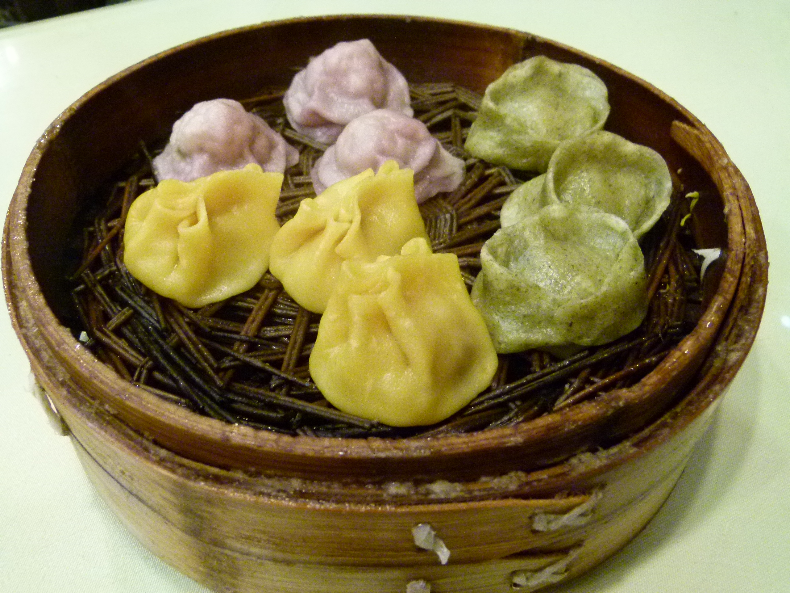 Jiaozi in Xi’an (China), Restaurant De Fa Chang (德发长)